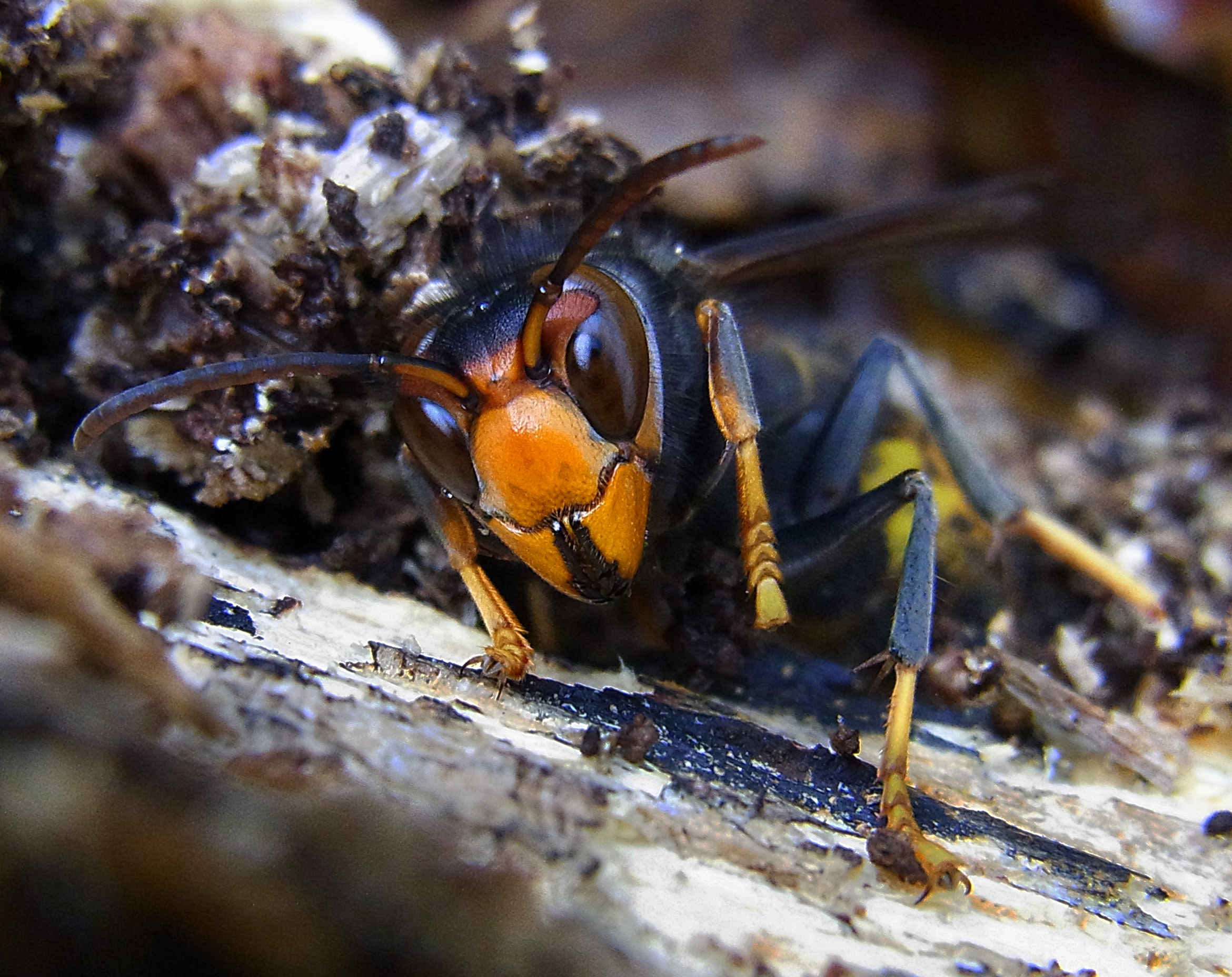 Vespa velutina from France near Limoges under the bark of dead tree for shelter in winter